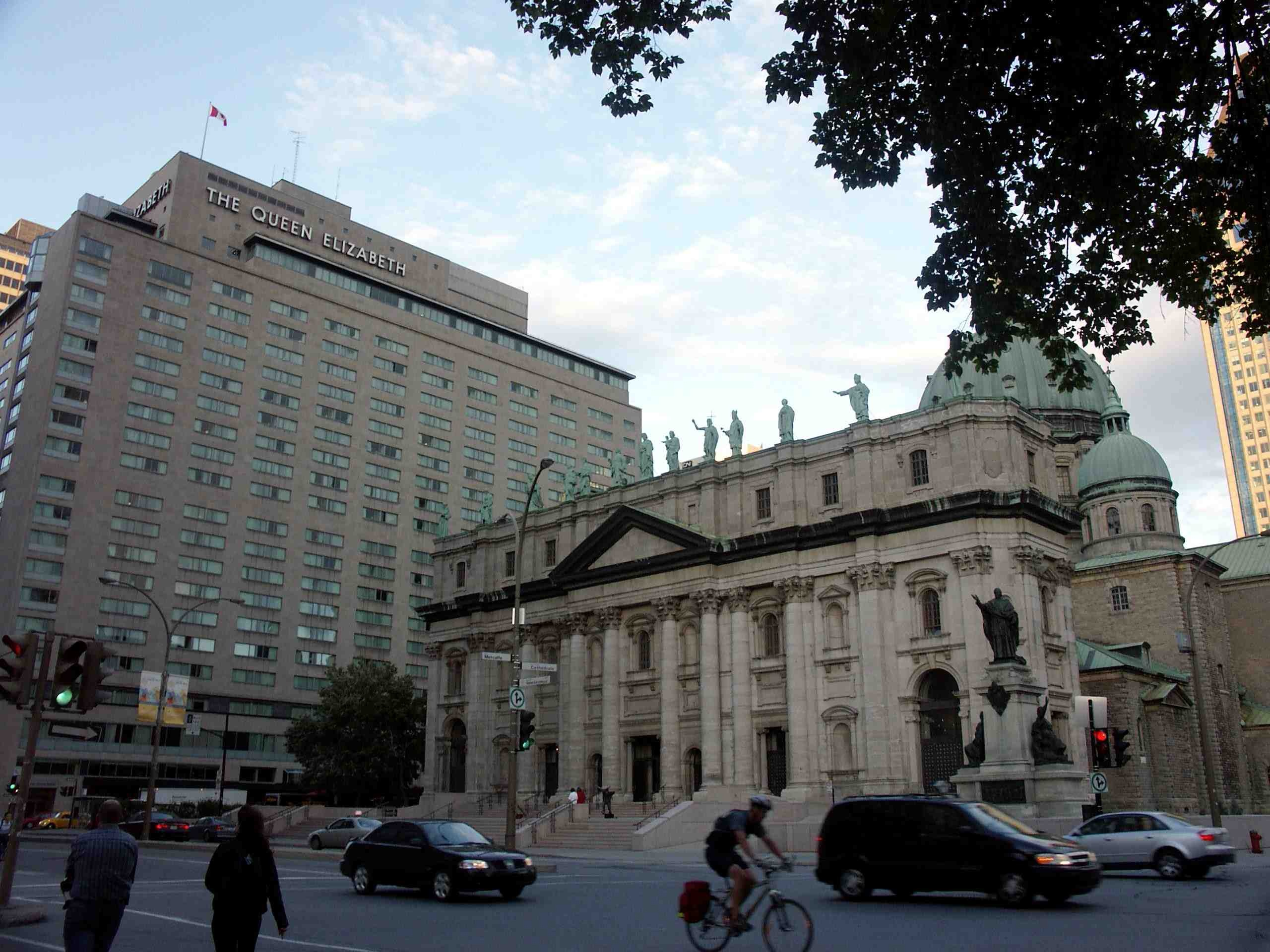 The hotel Fairmont Queen Elizabeth, in Montréal, September 2005. Photo by User: Gene.arboit.